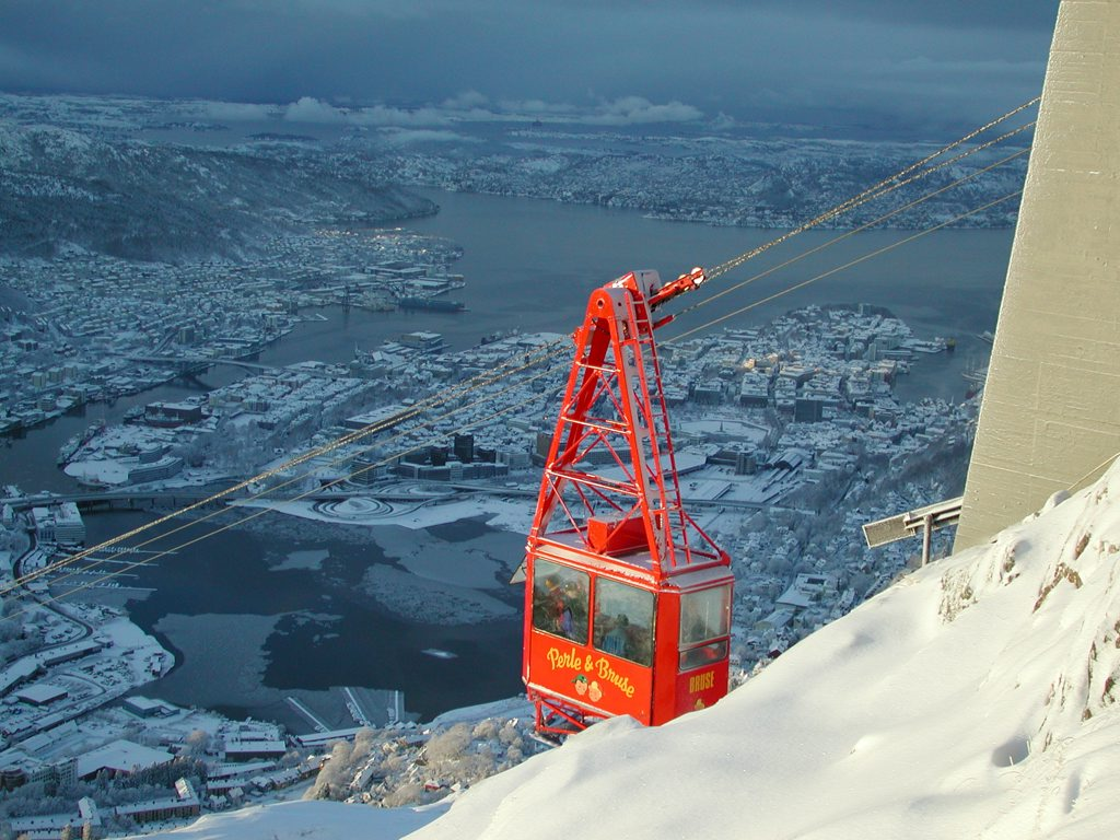 Ulriken (643 metres above sea level) is the highest of the seven mountains (“de syv fjell”) that surround Bergen. Here you can see the cable-car that brings people to the top.